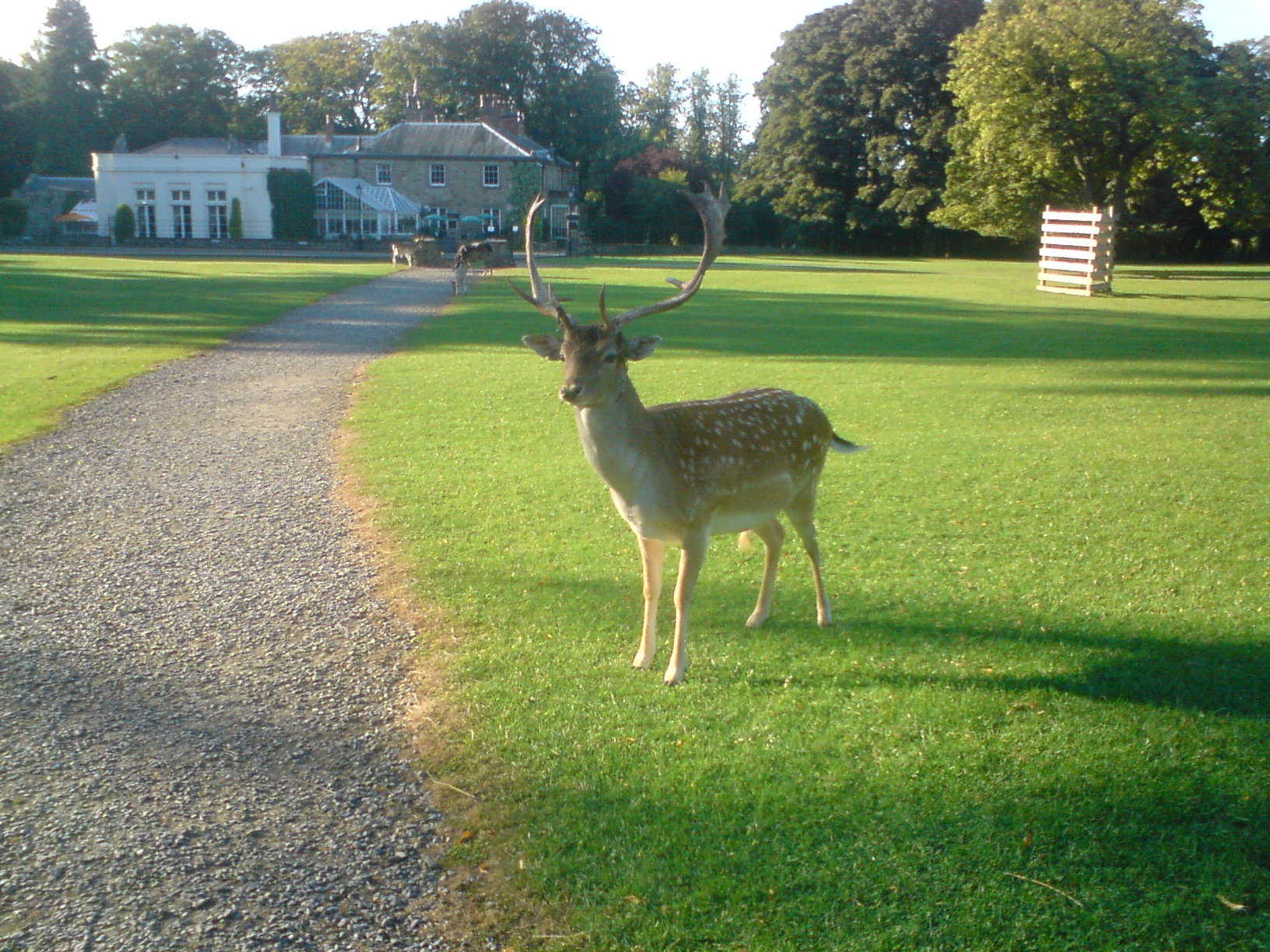 The deer at Whitworth Hall Country Park. A Grade II stately mansion can be seen in the background, which is now a hotel that is situated within the park.